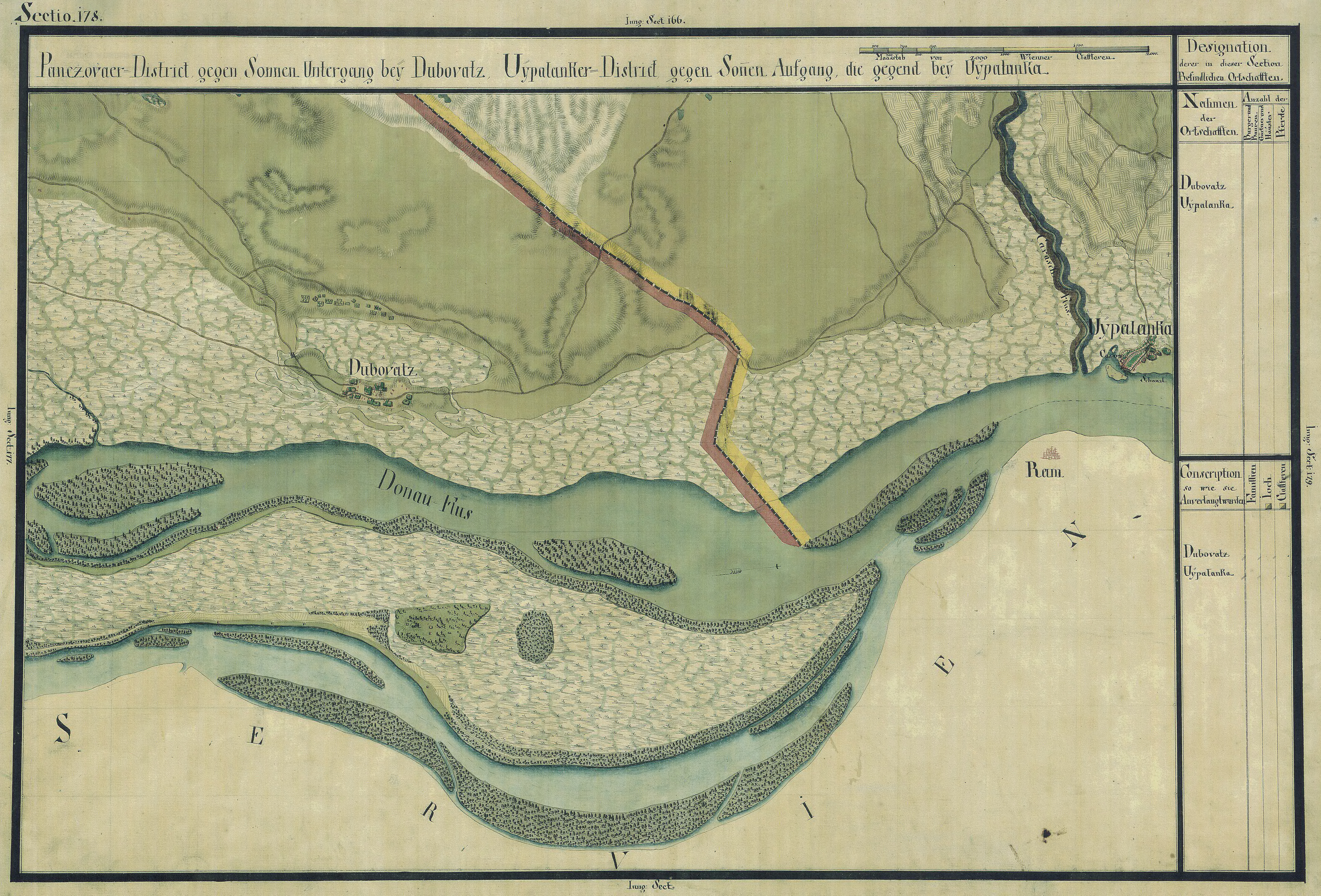 The Banat region in the cadastral maps: Josephinische Landesaufnahme, 1769-72. Josephinische Landaufnahme pg178